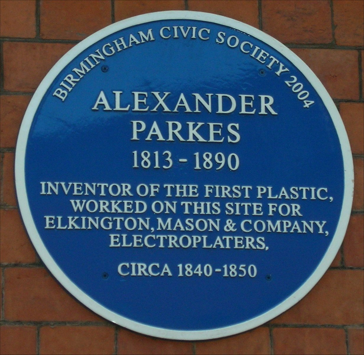 Blue plaque commemorating Alexander Parkes, inventor of the first plastic, in Birmingham, England. Photographed by me 18 September 2006. Oosoom